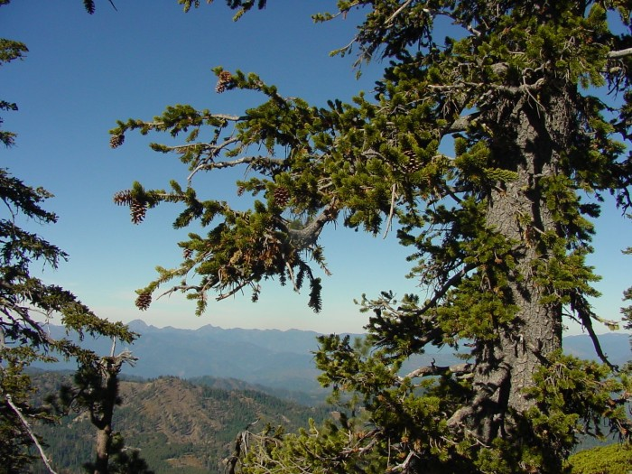 Foxtail Pine - Klamath Mountains - California